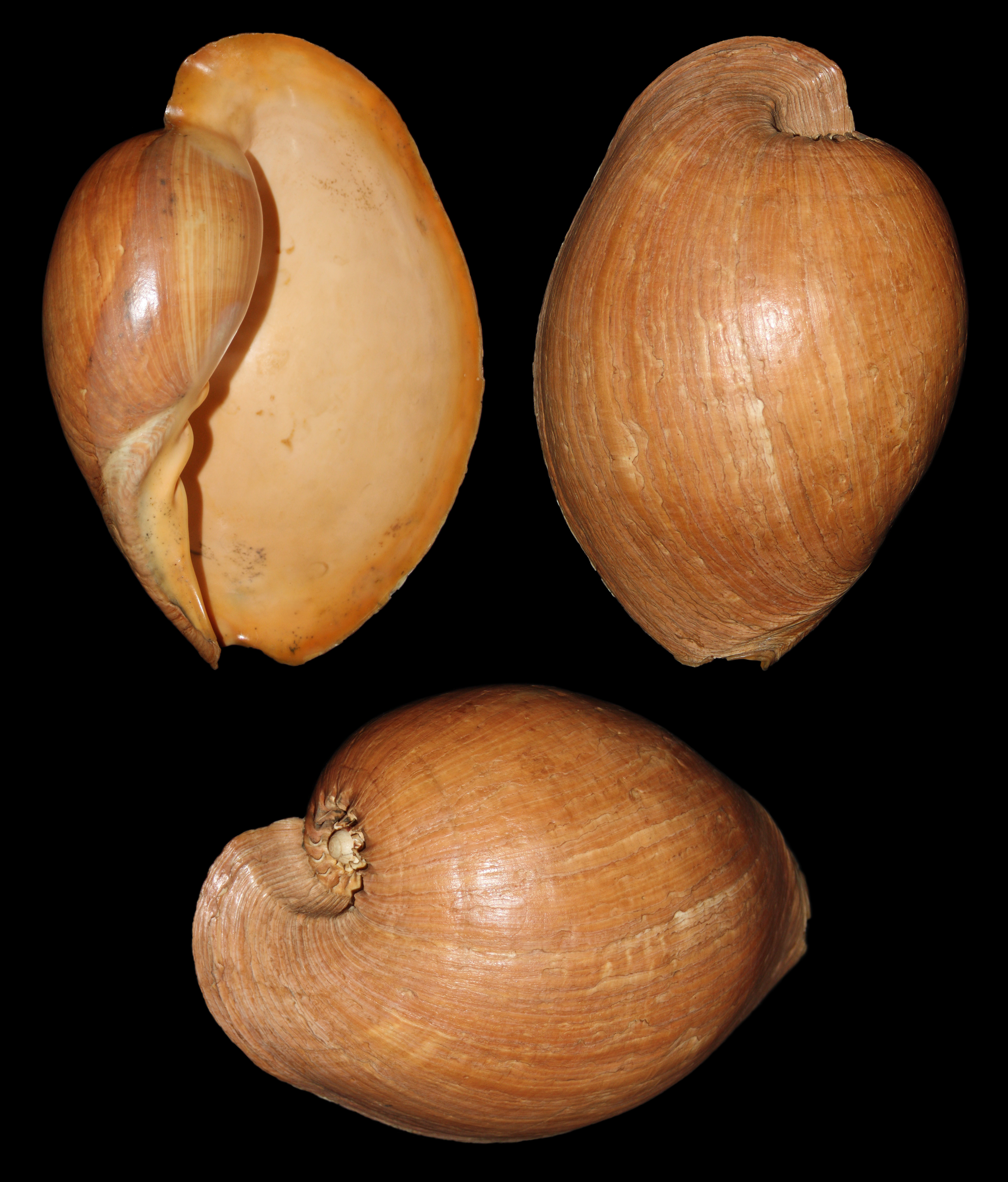 Melo aethiopica Linnaeus, 1758. Indonesia. 27 cm. Old shell, damaged and restored on photo.